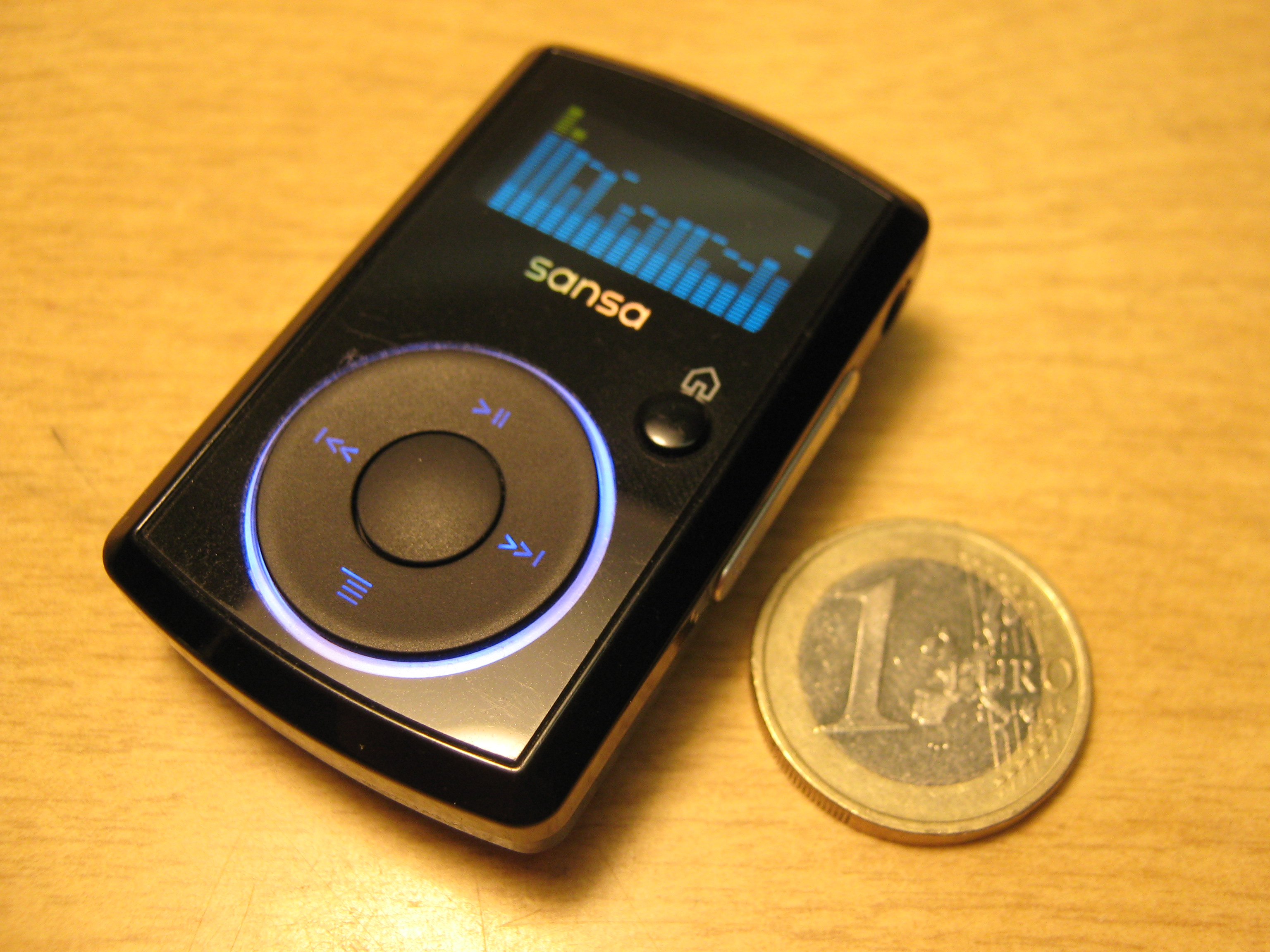 Macro shot of the Sandisk Sansa Clip running its spectrum visualizer alongside a 1 euro coin for size comparison